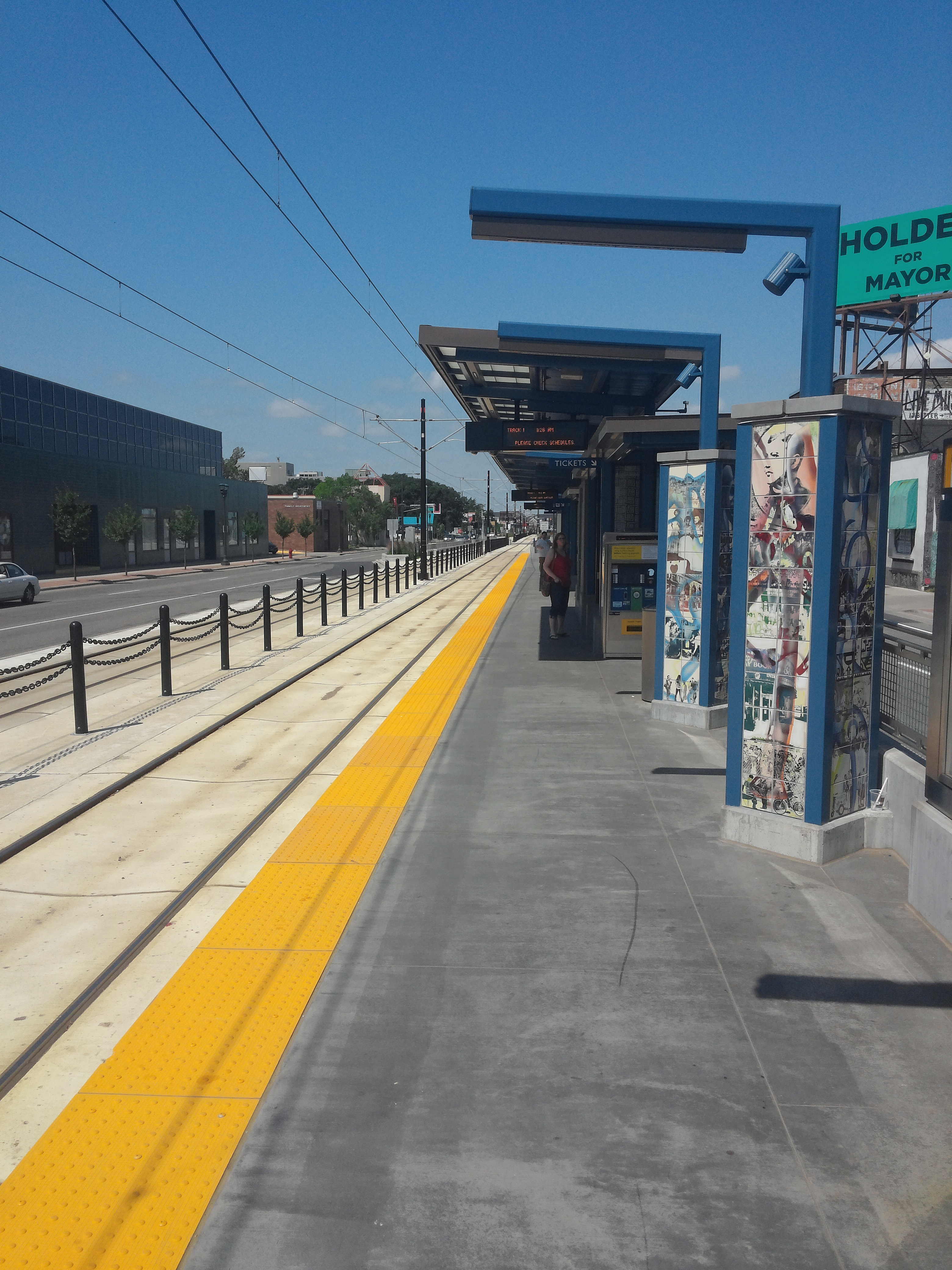 The western half of the Snelling Avenue station on the METRO Green Line. This is the side to which downtown Minneapolis-bound trains arrive.